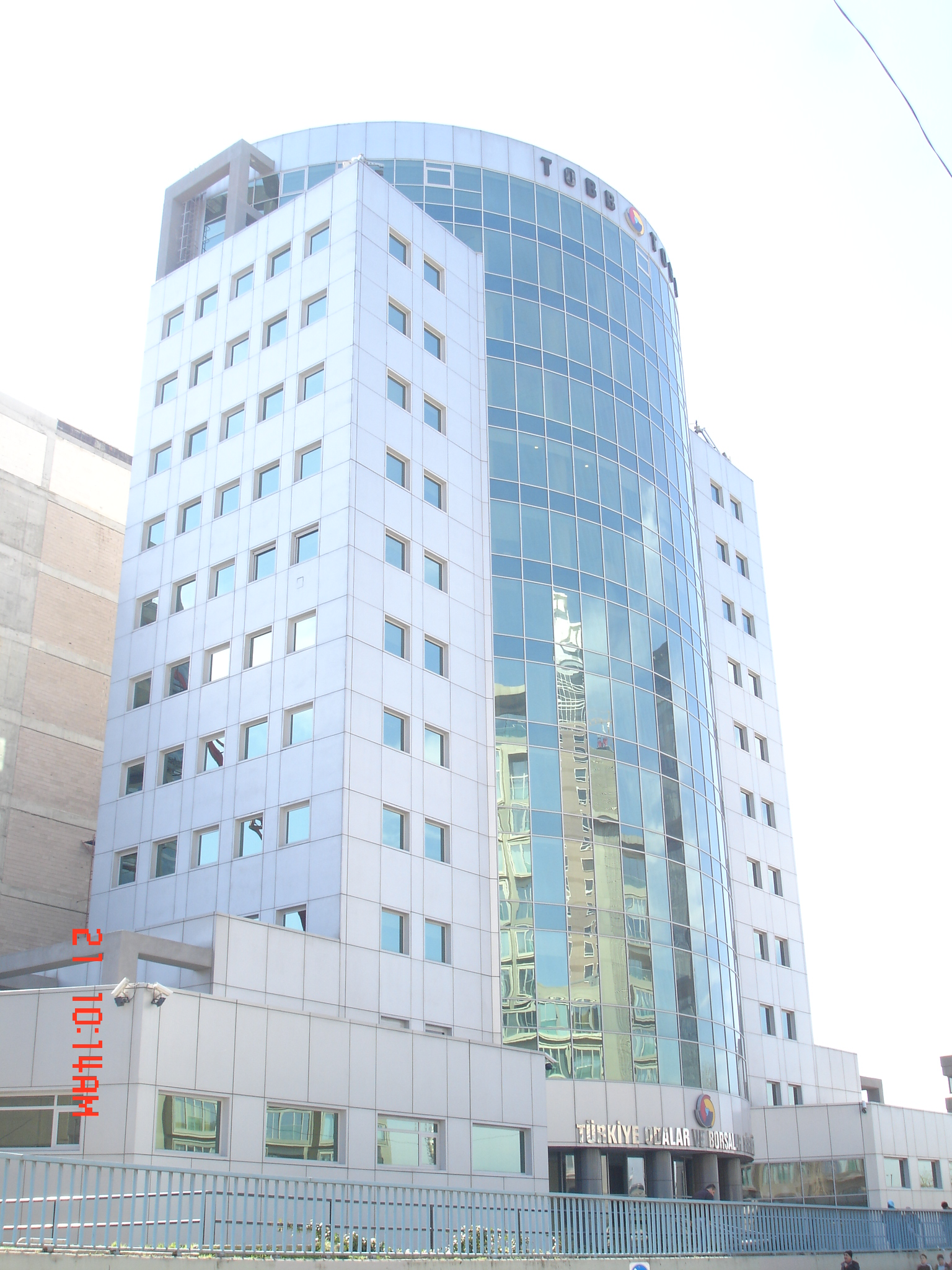 Union of Chambers and Commodity Exchanges of Turkey -TOBB- Building (İstanbul)